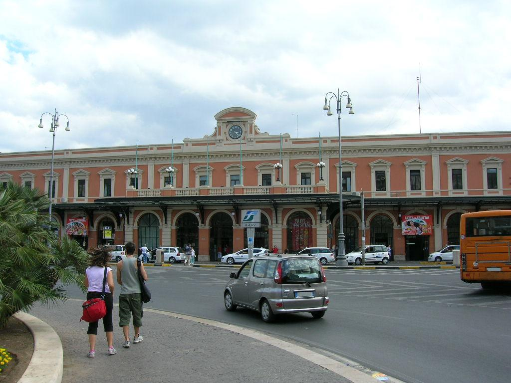 Central Railway Station, Bari, Italy